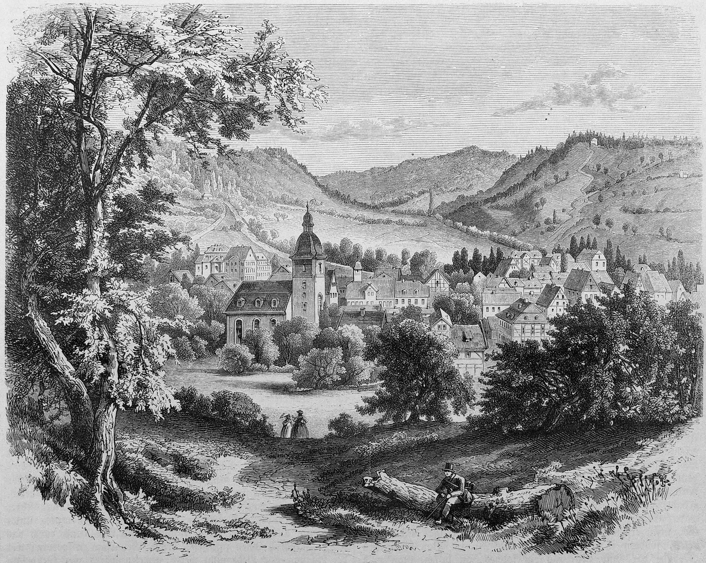 caption: "Die Erziehungsanstalt Keilhau auf dem Thüringer Walde."